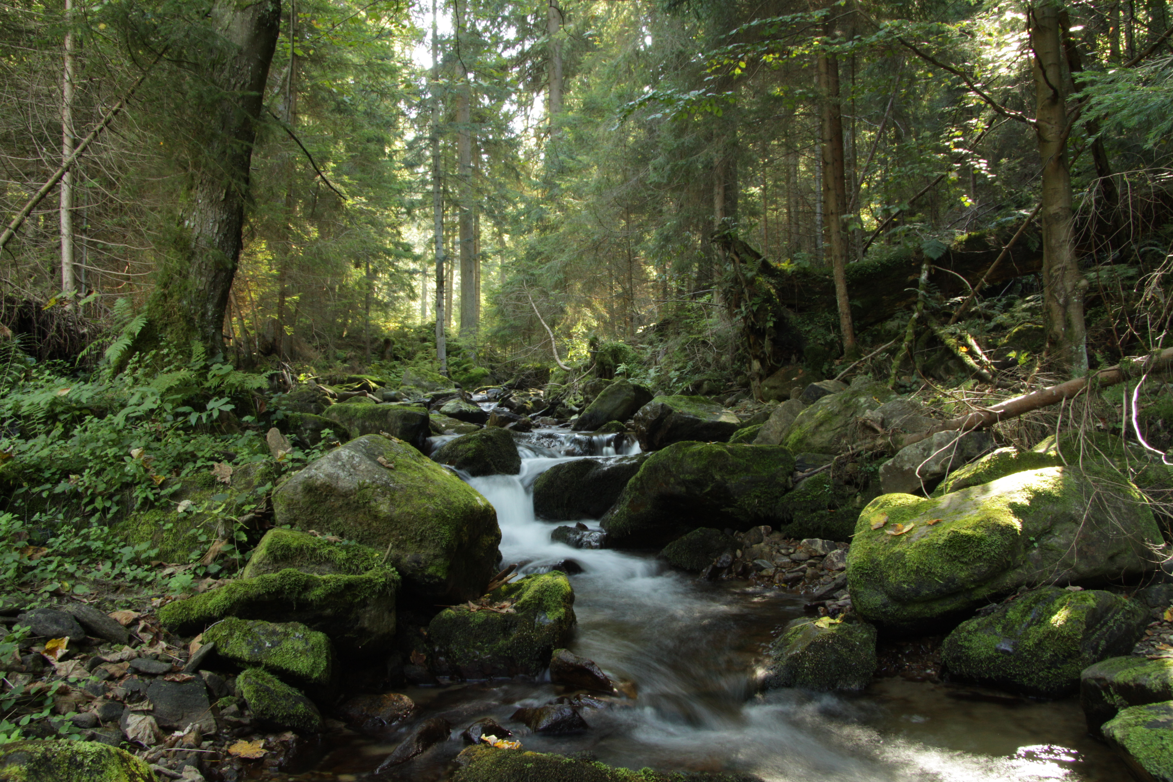 Boubínský stream flowing trough nature reserve Čertova stěna in Prachatice District, Czech Republic Project: Chráněná území.